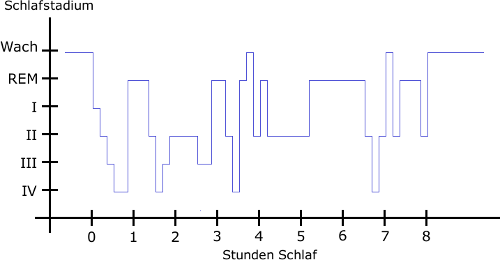 (follows)